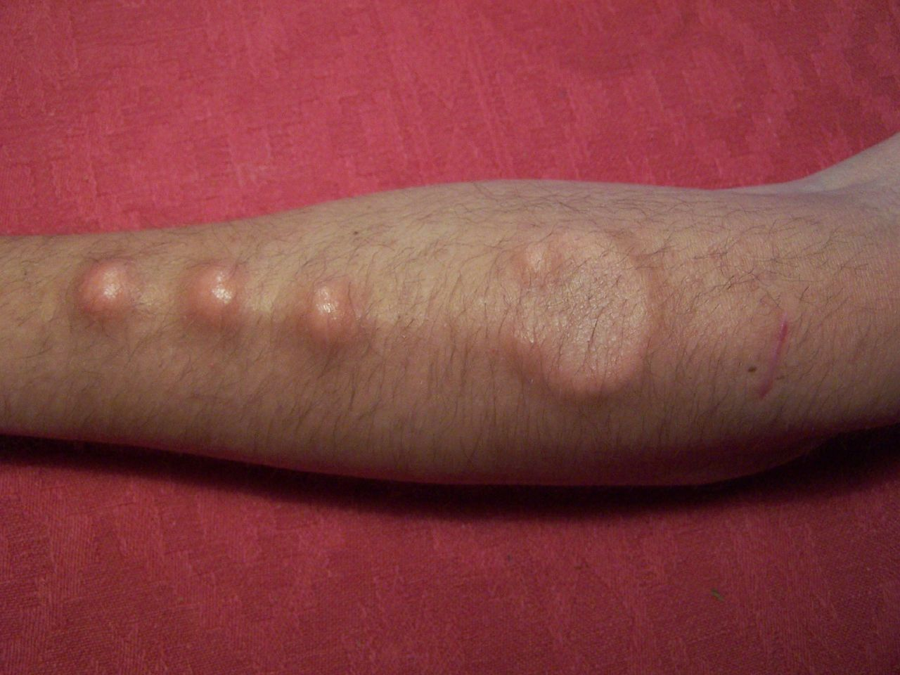 A friend's implants. Some weeks later the ball in the middle started to wander downwards and is a lot closer to the left one in the picture now. Sucks cause you can't just push it back it place, you know? ;o)